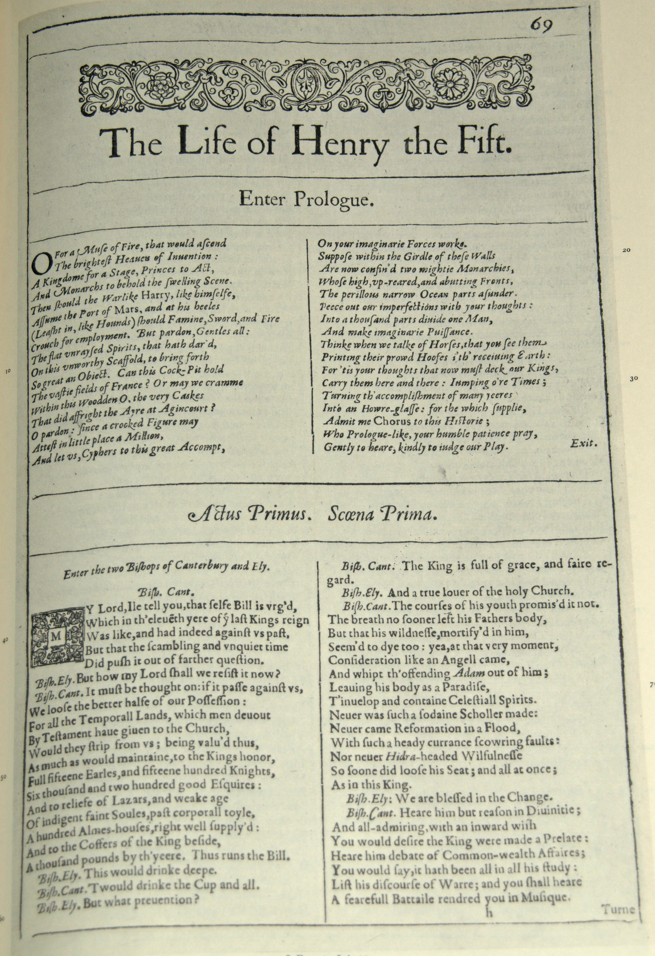 Photo of the first page of The Life of King Henry the Fifth from a facsimile edition of the First Folio of Shakespeare's plays, published in 1623